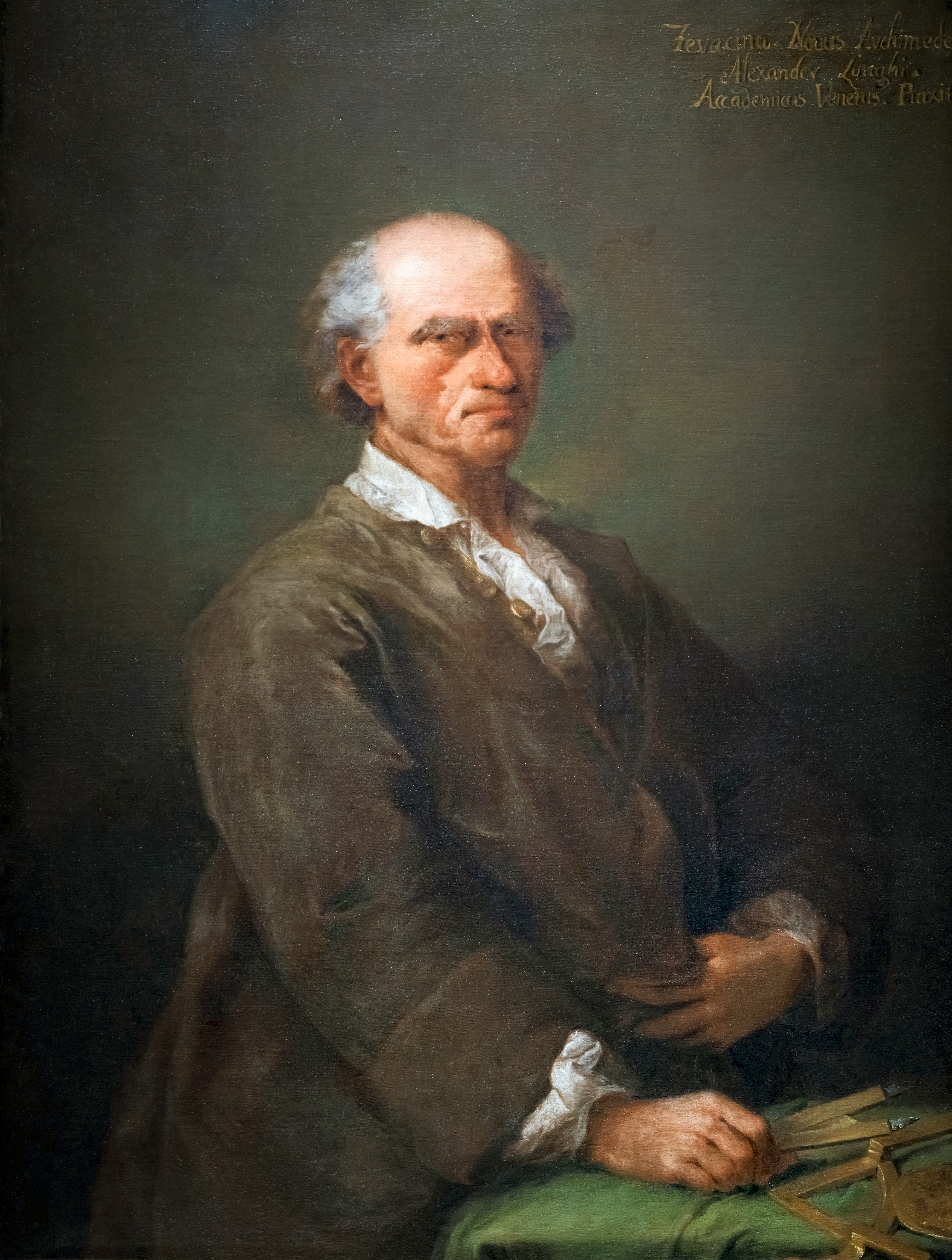 Depicted person: Bartolomeo Ferracina – Italian watchmaker and engineer